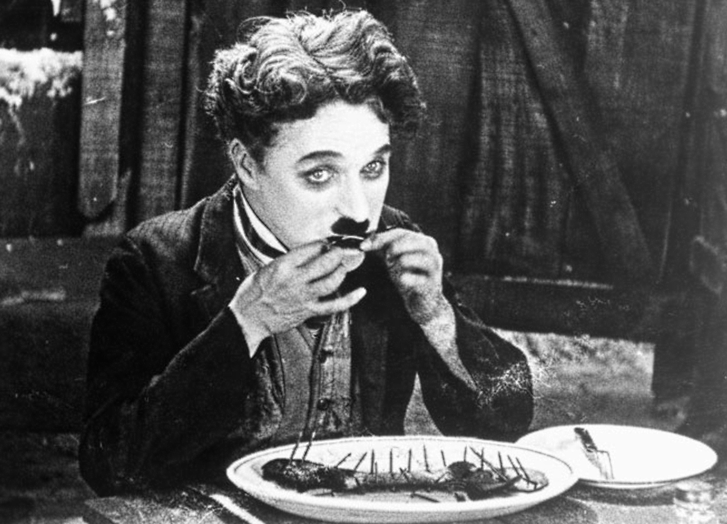 Cropped publicity still for Charlie Chaplin's 1925 film The Gold Rush. The stock code in the left hand corner of the original confirms that this was a publicity still. Such images were taken on set during filming, or as part of an organized photo-shoot, by a studio photographer. They were then disseminated to the media and the public to promote the film (see Film still). Public domain explanation It is unlikely that this image was secured with copyright protection, as stated by film industry expert Gerald Mast in Film Study and the Copyright Law (1989) p. 87: "According to the old copyright act, such production stills were not automatically copyrighted as part of the film and required separate copyrights as photographic stills ... Most studios have never bothered to copyright these stills because they were happy to see them pass into the public domain, to be used by as many people in as many publications as possible." If there is any chance that the photograph was copyrighted, under the terms of the 1909 Copyright Act (which was law until 1978) it would have had to be renewed 28 years after publication. Copyright renewal records for artwork in 1953 find no trace of any images from The Gold Rush: [1] [2]